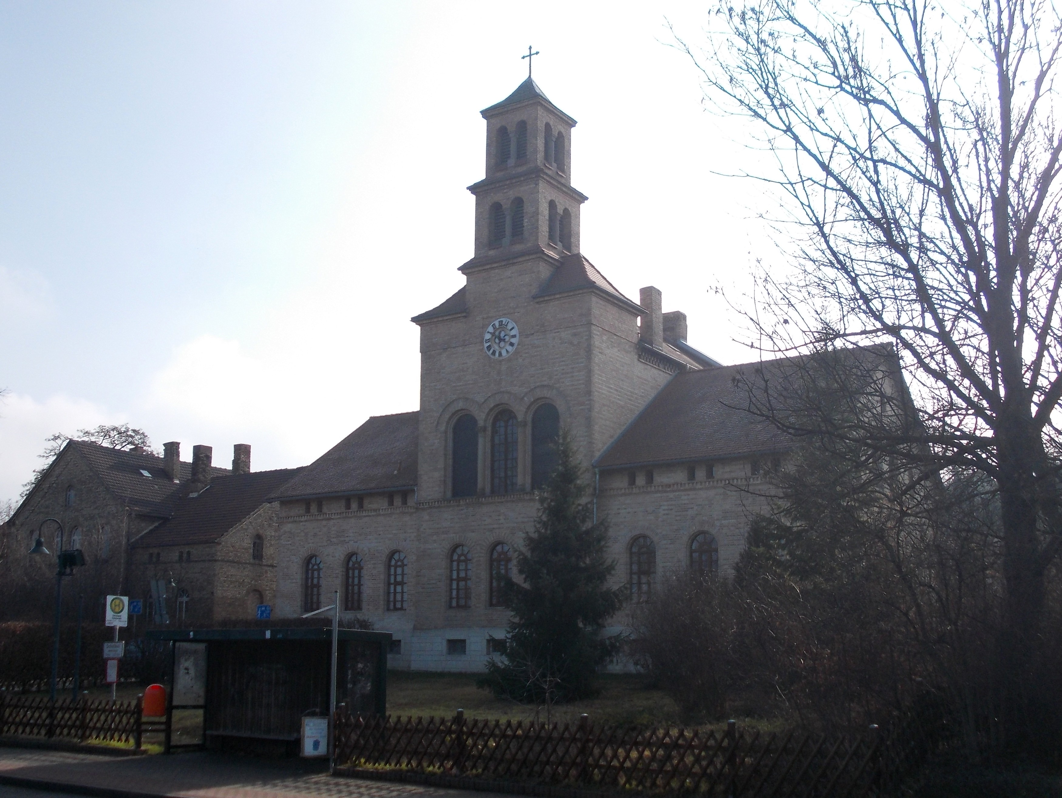 Church in Salzmünde (Salzatal, district: Saalekreis, Saxony-Anhalt)